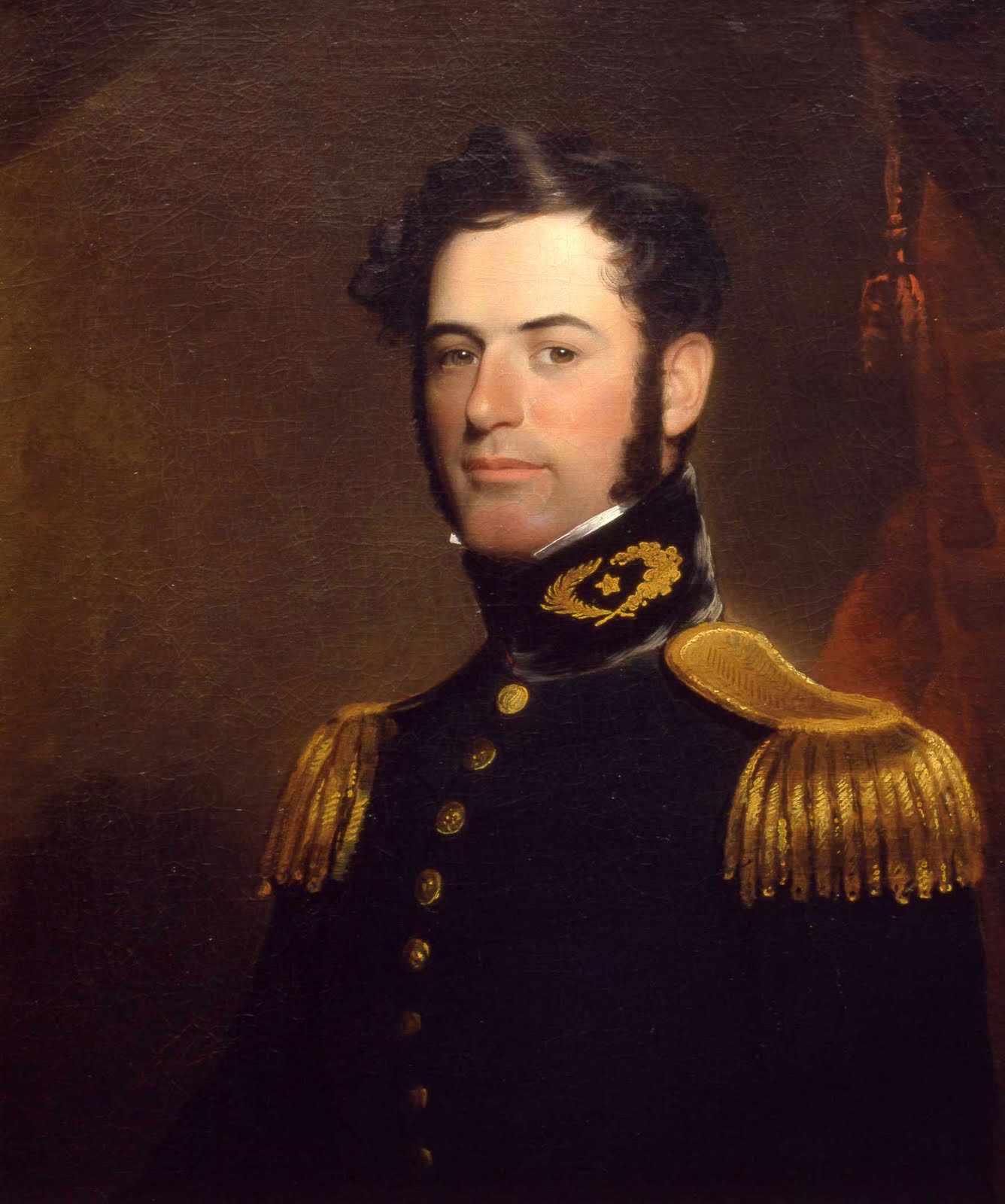 Robert E. Lee at age 31, then a young Lieutenant of Engineers, U. S. Army, 1838